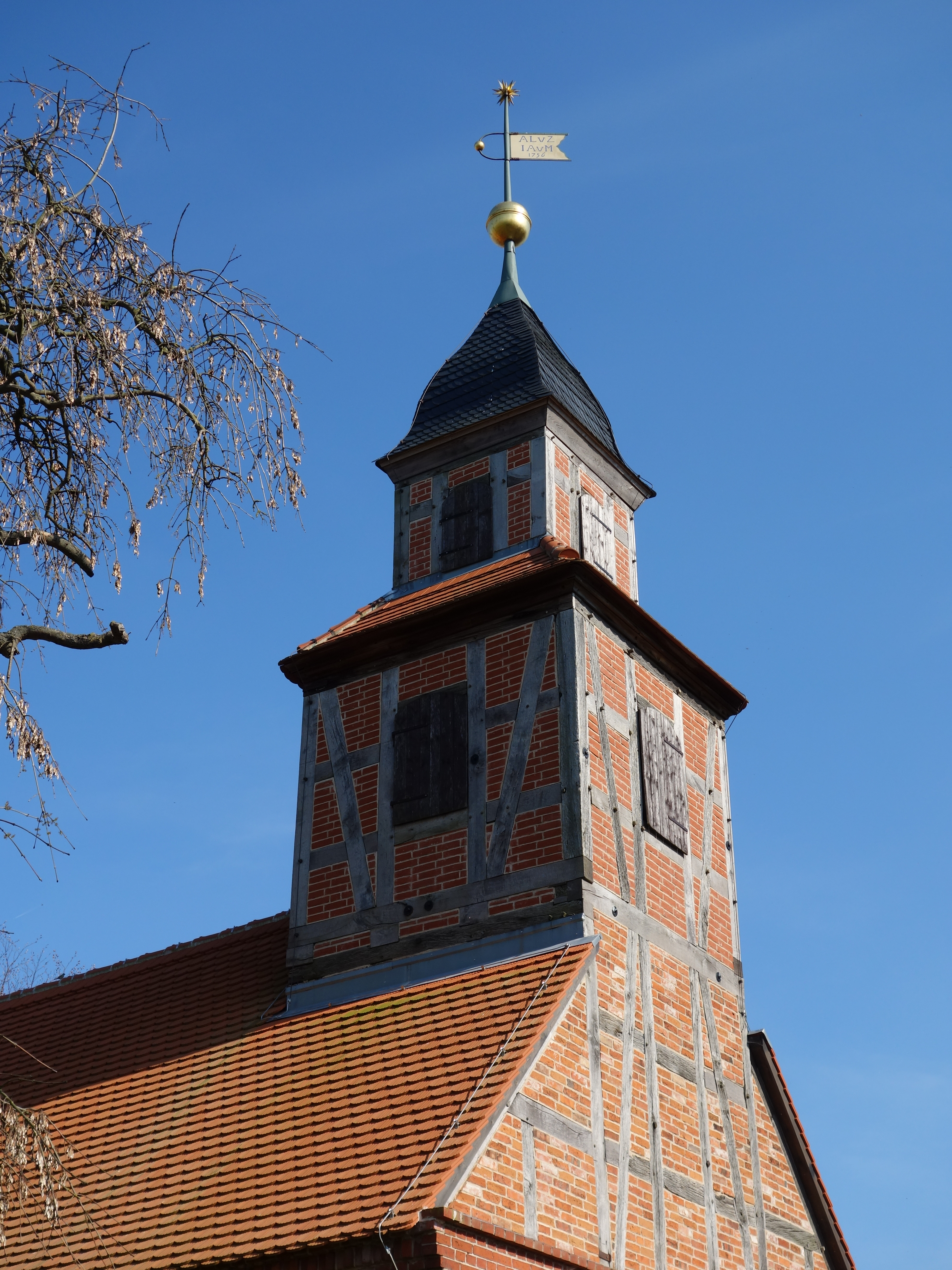 North-western view of church tower in Wassersuppe, Seeblick municipality, Havelland district, Brandenburg state, Germany.